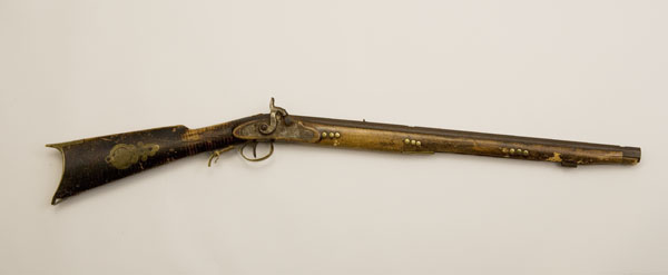 Chief Joseph’s Hunting Rifle c 1860 After Chief Joseph and the US Army agreed to stop hostilities at Bear Paw in October, 1877, Joseph’s people were taken into exile. From the summer of 1878 until 1885, many of the Wallowa Band remained in Oklahoma. This .45 caliber rifle was used by Joseph for subsistence hunting. Prior to leaving Oklahoma for their new home on the Colville Reservation in Washington, Joseph gave the rifle to the Chilocco Indian School, near the border with Kansas. When the school was closed in 1980, the rifle was given to the Nez Perce Tribe. Metal, wood. L 59.8 (Barrel), L 98.4 cm Nez Perce National Historical Park, NEPE 9741